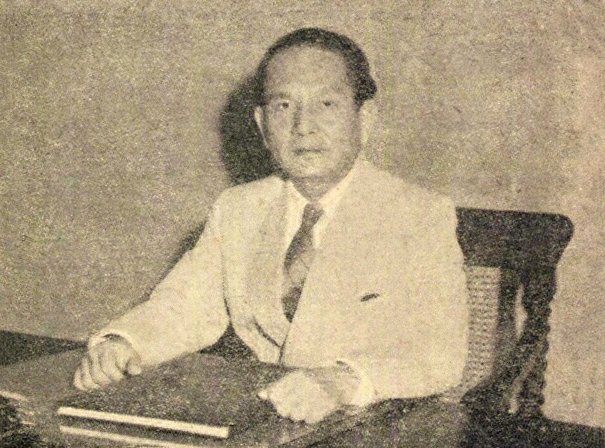 Official portrait of Sartono as the chairman of the People's Representative Council in 1956.